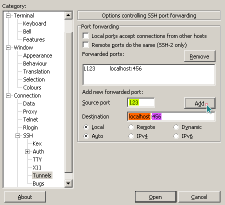 A local port forwarding specifies that the given port on the local (client) host is to be forwarded to the given host and port on the remote side via putty (ssh). The PuTTY application is executed on the blue computer.